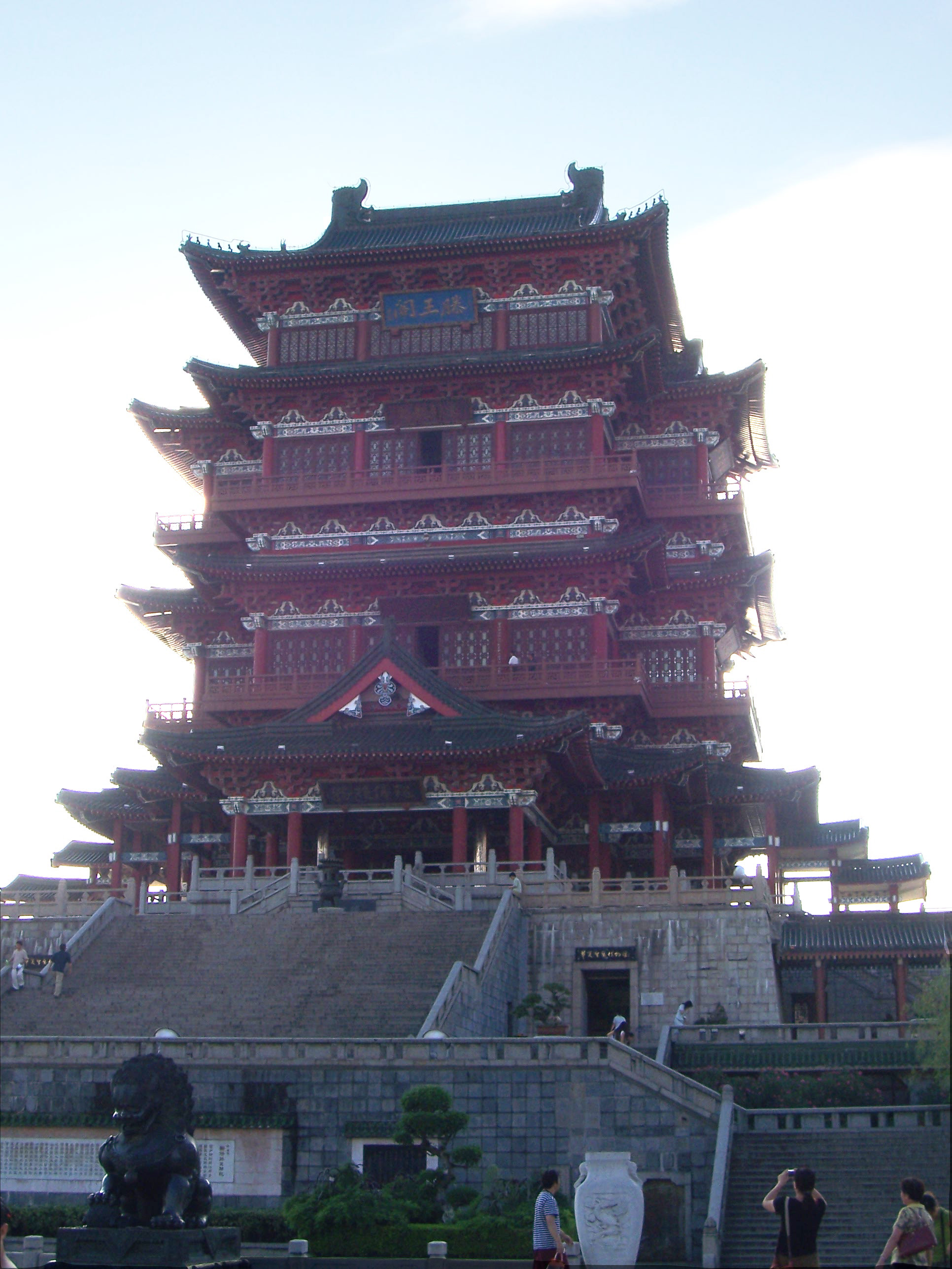 Pavilion of Prince Teng